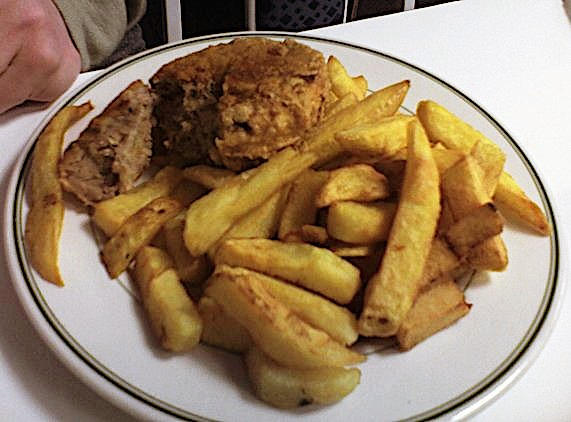 A pastie supper in a traditional Northern Irish chippy.